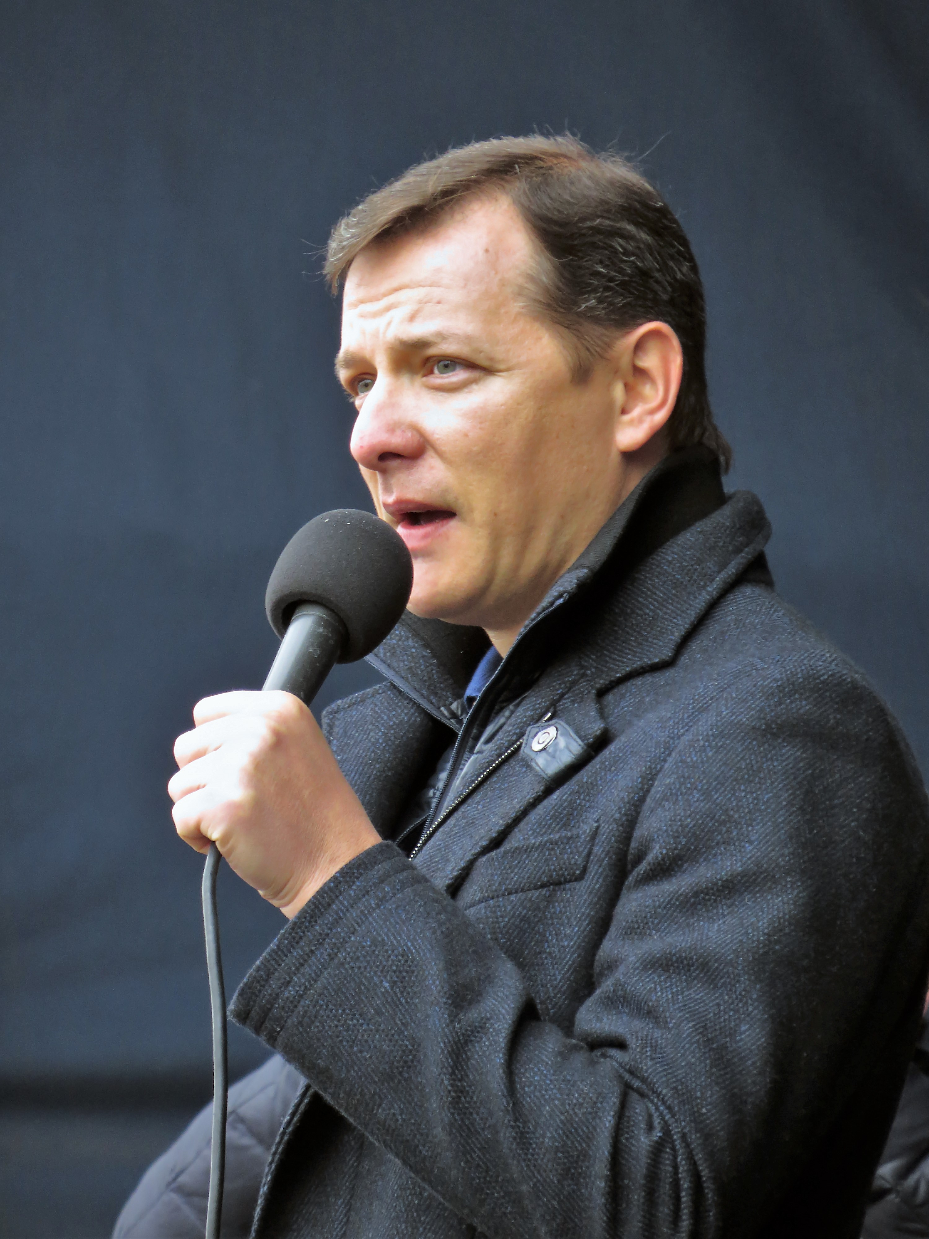 Kiev, main stage of Maidan. Oleh Lyashko speaking on meeting, initialized by Right sector activists